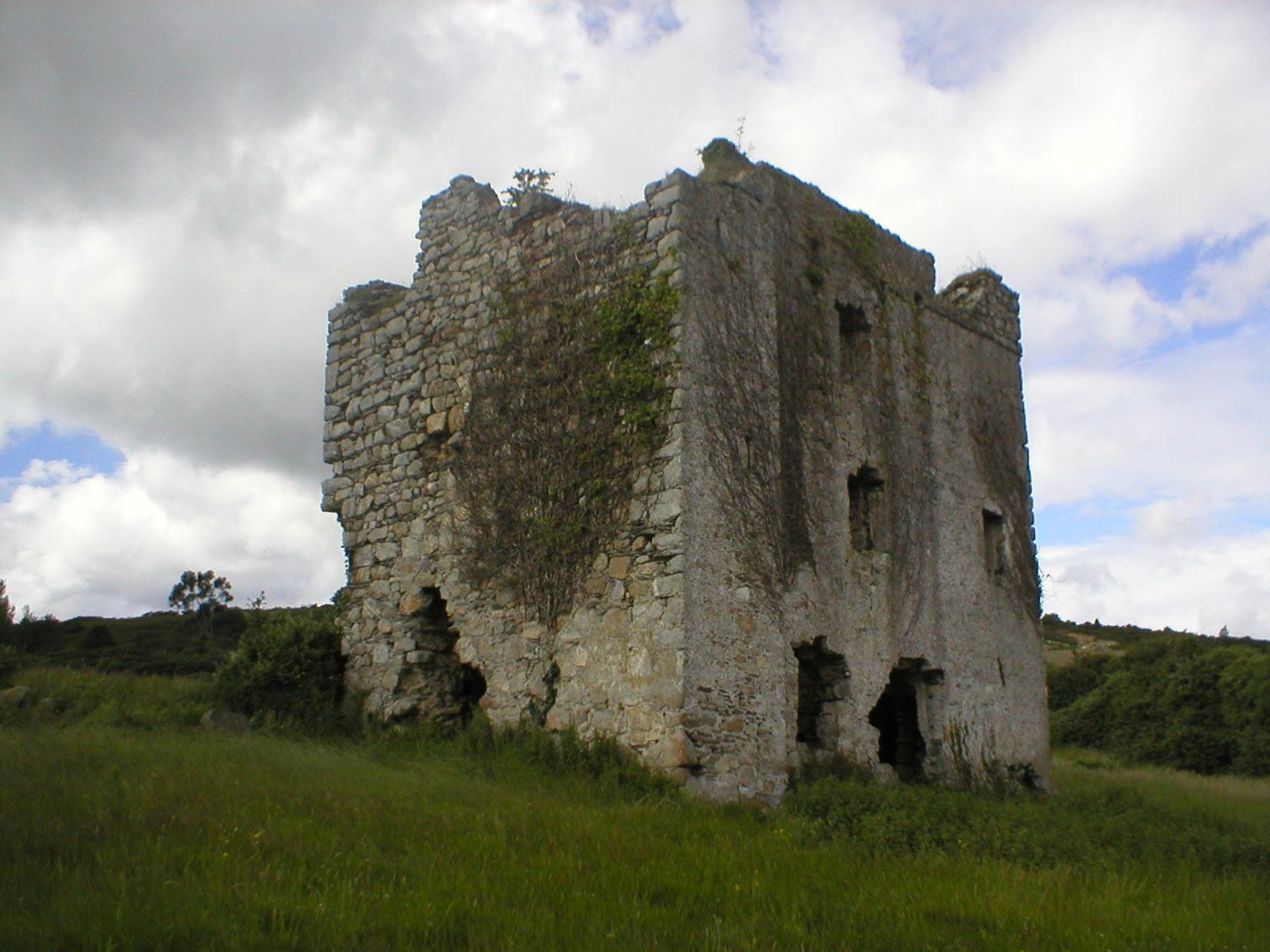 Pucks Castle, Shankill, Dublin, Ireland